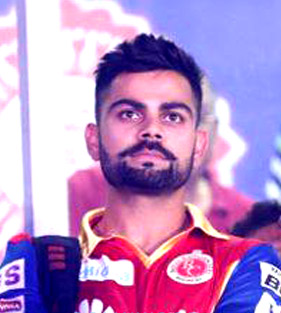 Virat Kohli at the opening ceremony of the 2015 Indian Premier League at Kolkata.